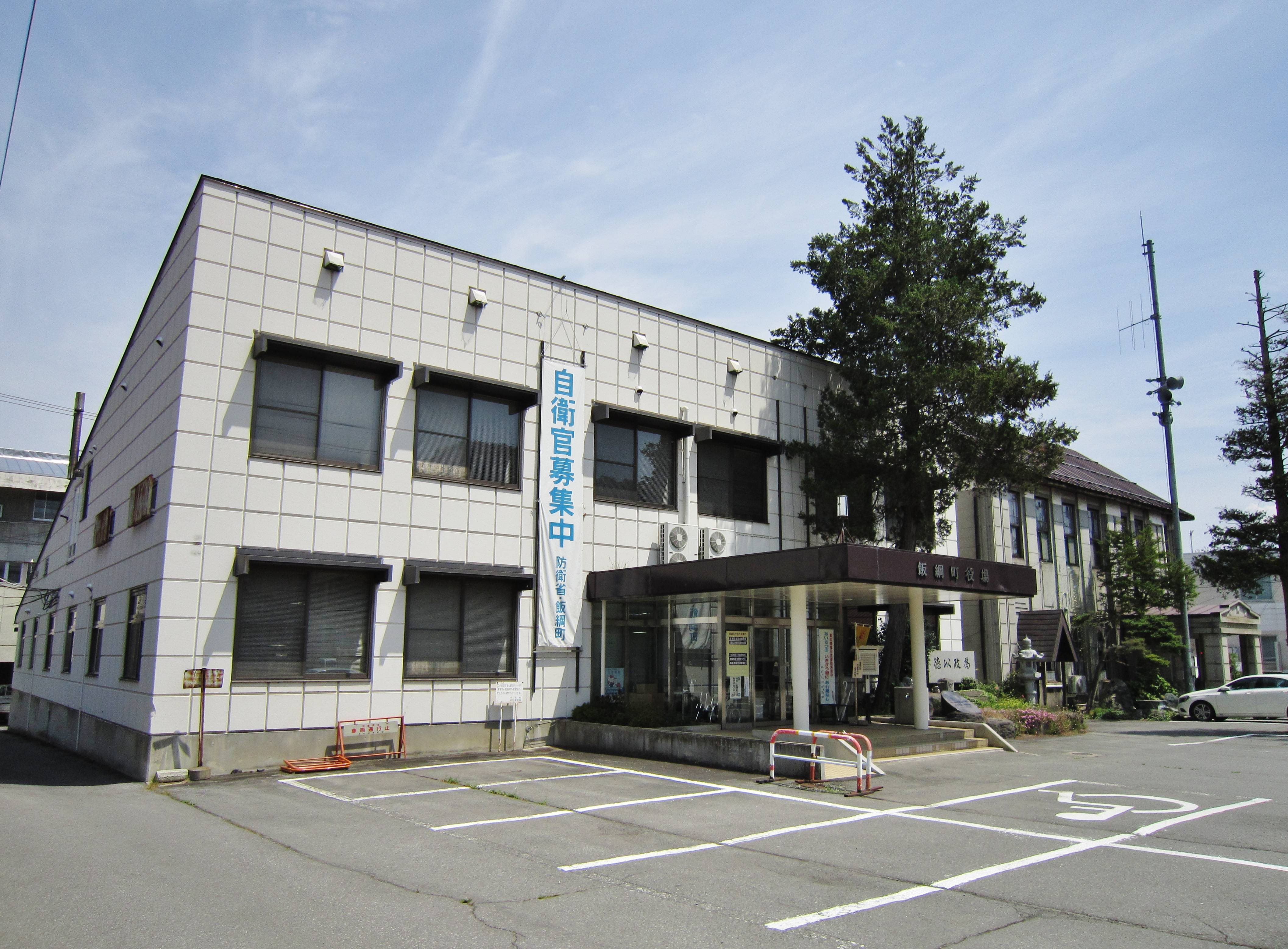 Iizuna town Mure branch office.